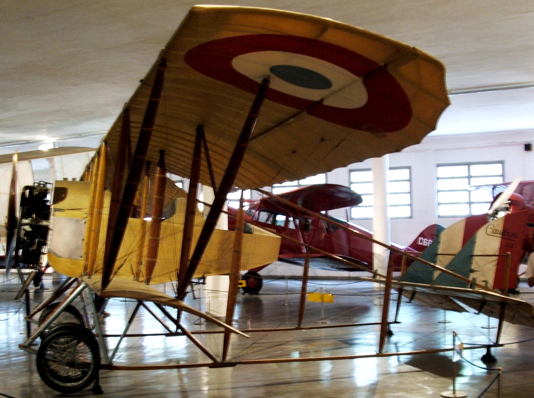 Caudron G3 at exposition in the Airspace Museum in Rio de Janeiro.